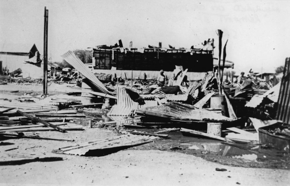 North Gregory Hotel after a fire in 1946 In 1878 the first North Gregory Hotel was built and it burned down in 1900. Damage in 1915 and 1946 menat that the Hotel was re-built twice before 1954, when it had a mojor rebuild. This photograph was taken after the 1946 fire. (Description supplied with photograph.).